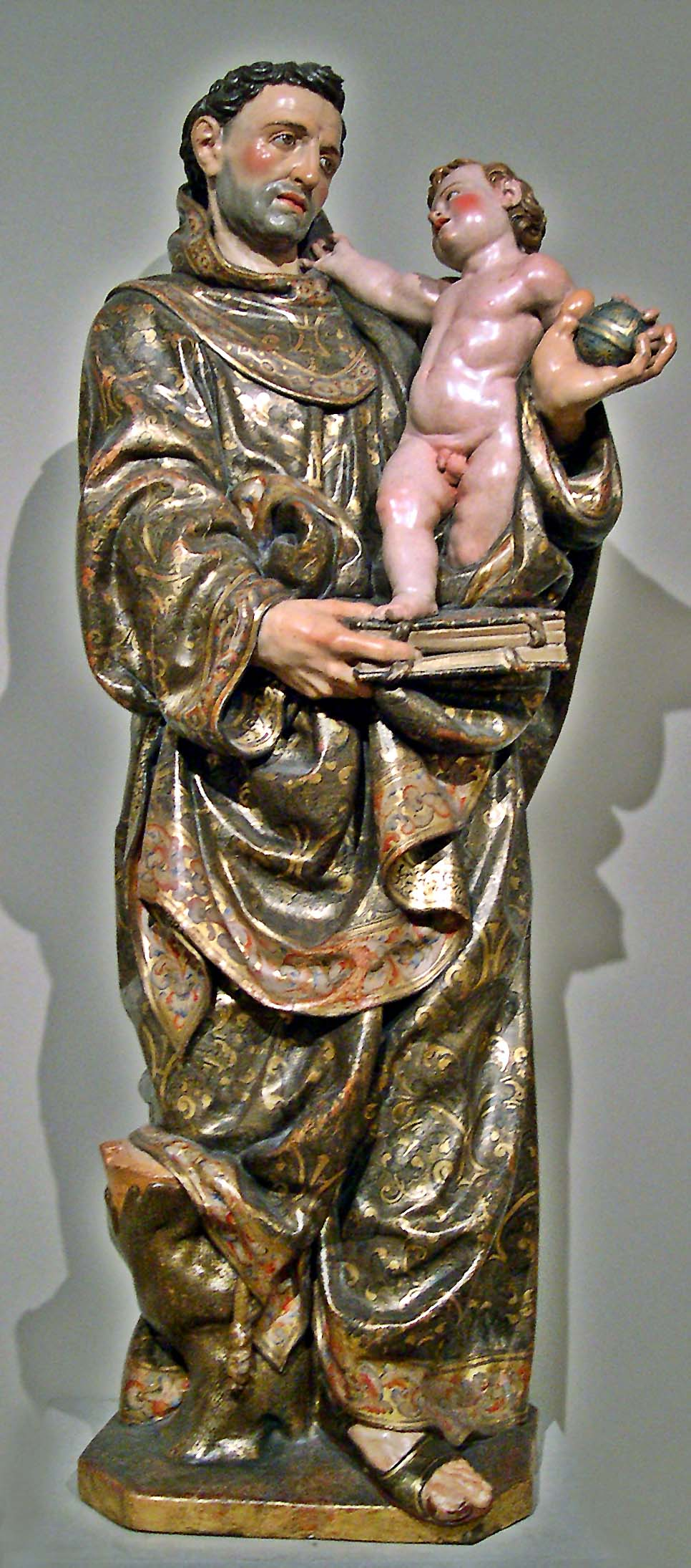 St. Anthony of Padua, sculpture in polychromed wood, actually exposed in the Museo Nacional de Escultura, in Valladolid (Spain)